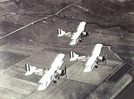 AWM caption : Richmond, NSW. 1932-10-20. Westland Wapiti Two-seat General Purpose Aircraft A5-27 A5-14 and A5-13 of No. 3 Squadron RAAF photographed during a formation training flight in the Richmond area.